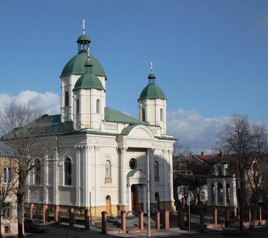 Ukrainian Orthodox Church of Saint Andrew in Lviv, Ukraine. Located at №66 Shevchenka Street, Lviv.